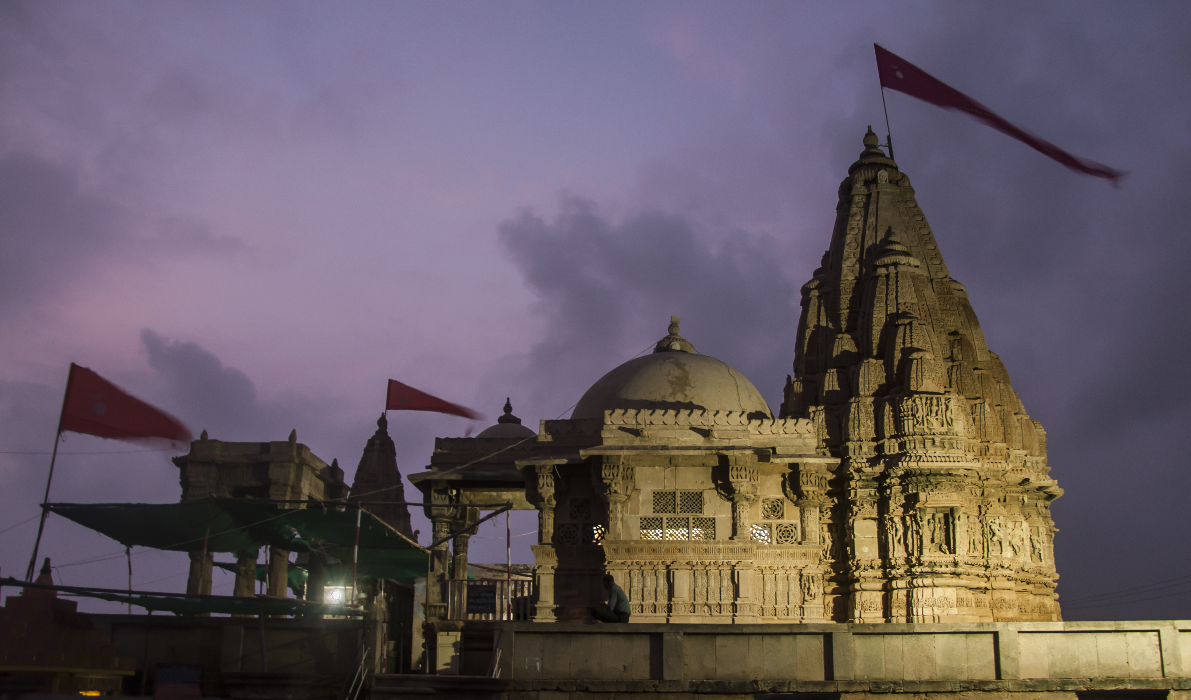 Rukmani Temple at Dwarka, Gujarat, India. The story goes that Rukmani, the wife of Dwarkanath was cursed to stay away from her nusband and so the Rukmani temple is 2 kms outside Dwarka.